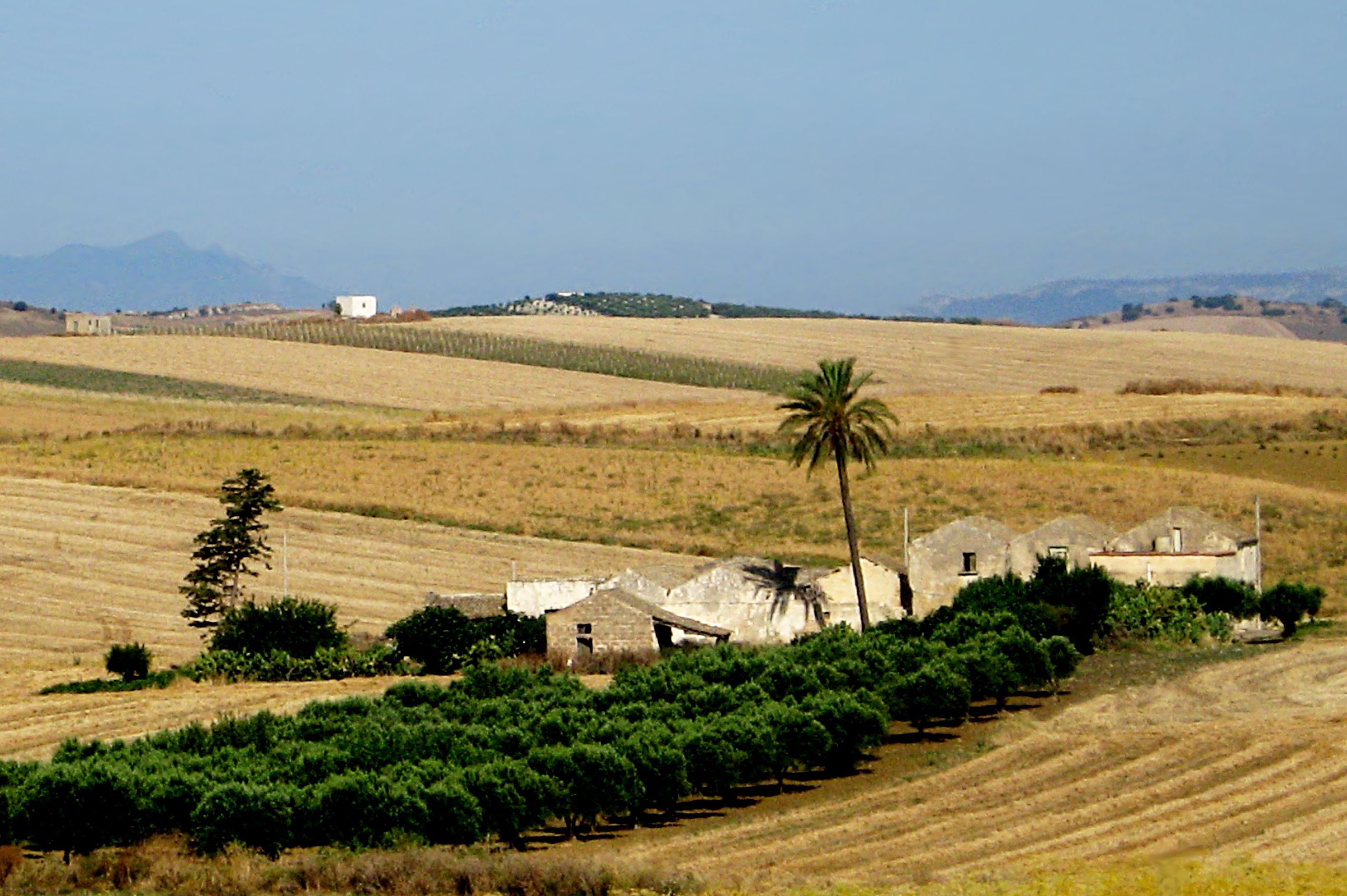 Various buildings of abandoned farm in the sicilian countryside. (Sicily - Italy)